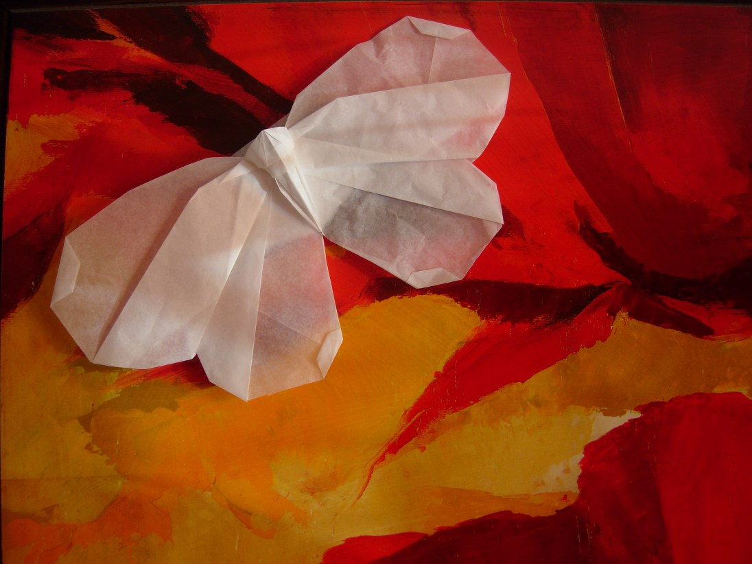 Flimsy paper origami